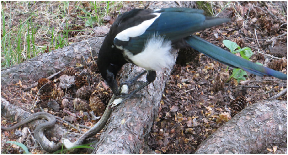 This is a black-billed magpie eating a wandering garter snake in the Rocky Mountain National Park.